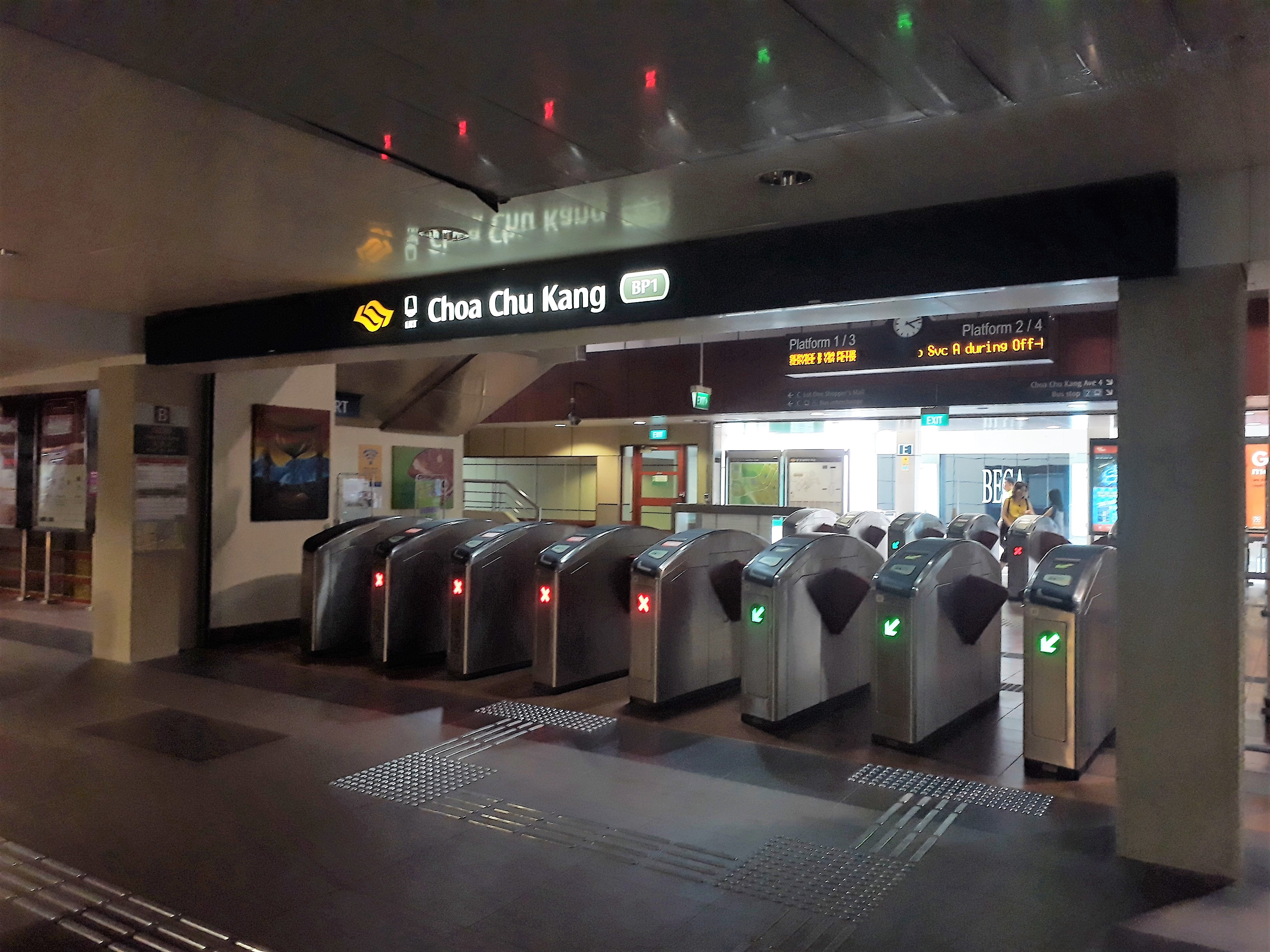 Choa Chu Kang LRT Concourse